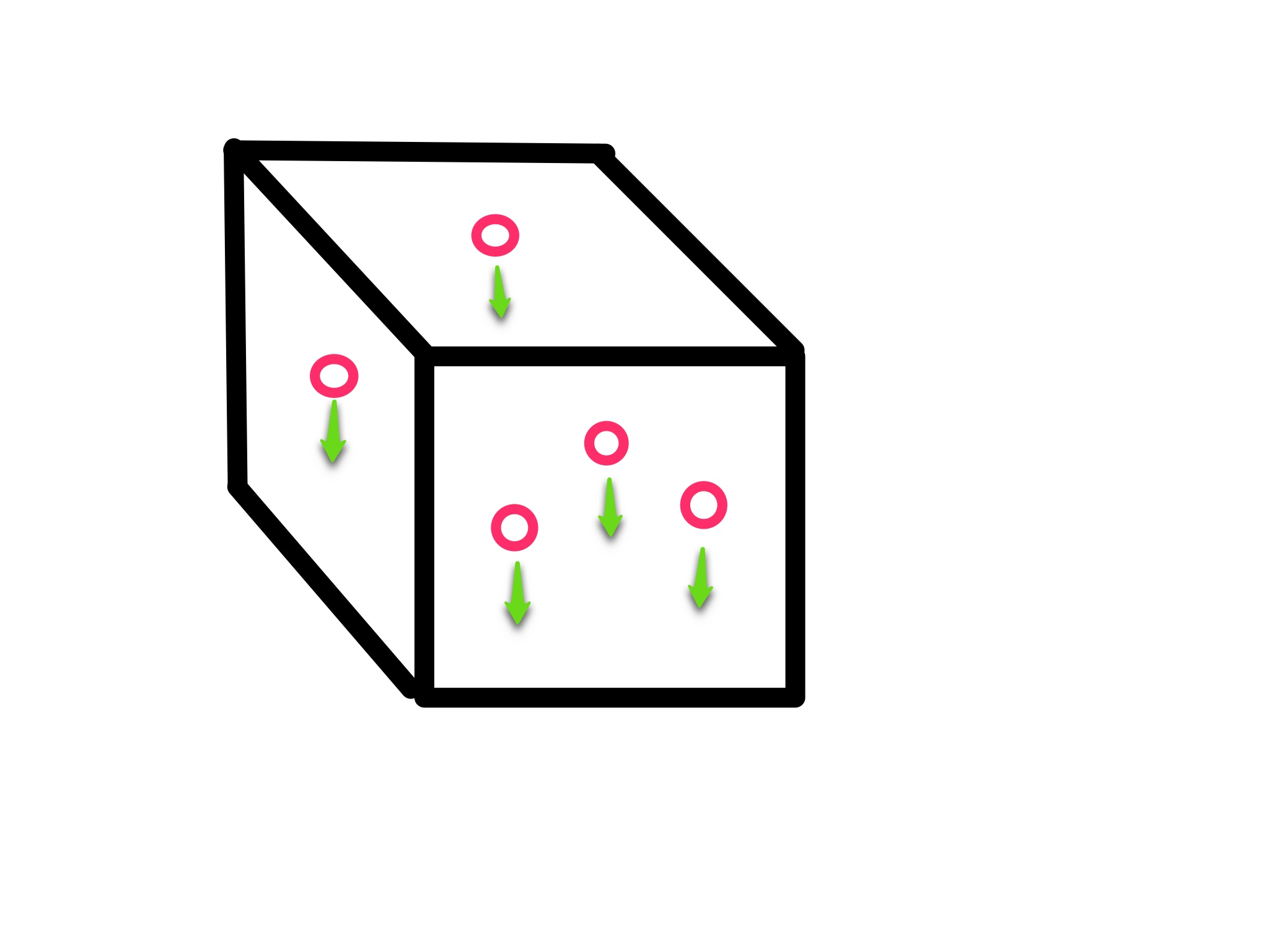 Macroscopic Behavior Differentiates from Ohshima's Model Based on Individual Particles